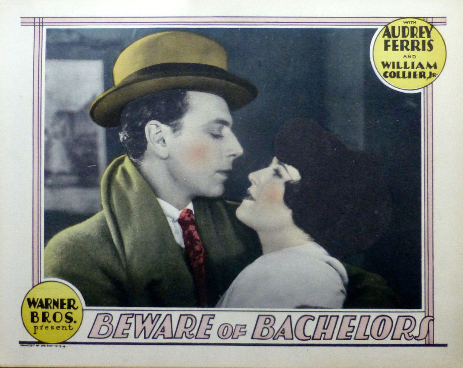 Lobby card for the American comedy drama film Beware of Bachelors (1928). With Audrey Ferris and William Collier Jr.